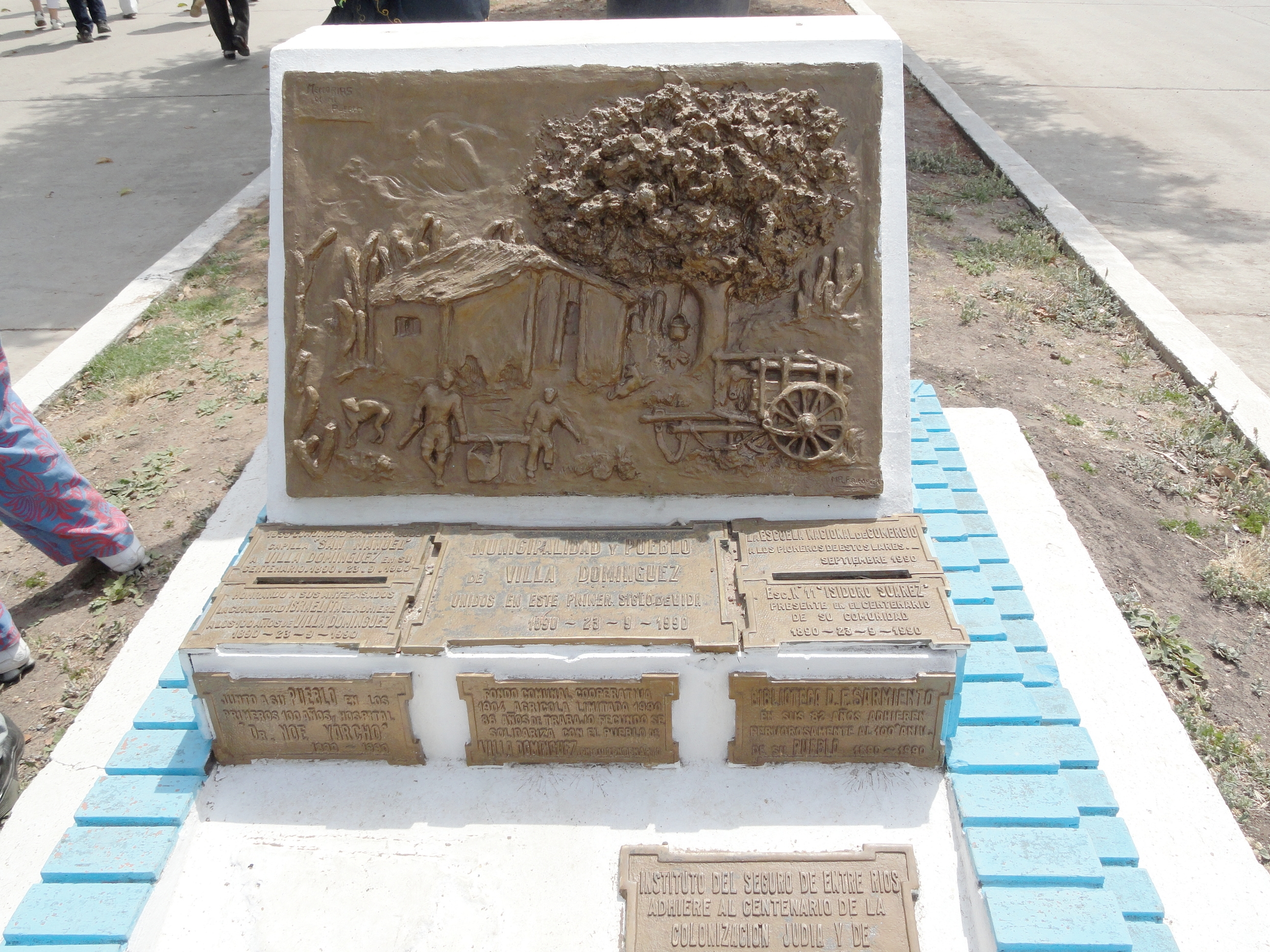 Commemorative plaque in the Jewish colony of Villa Dominguez (Argentina), celebrating the installation of the immigrants.